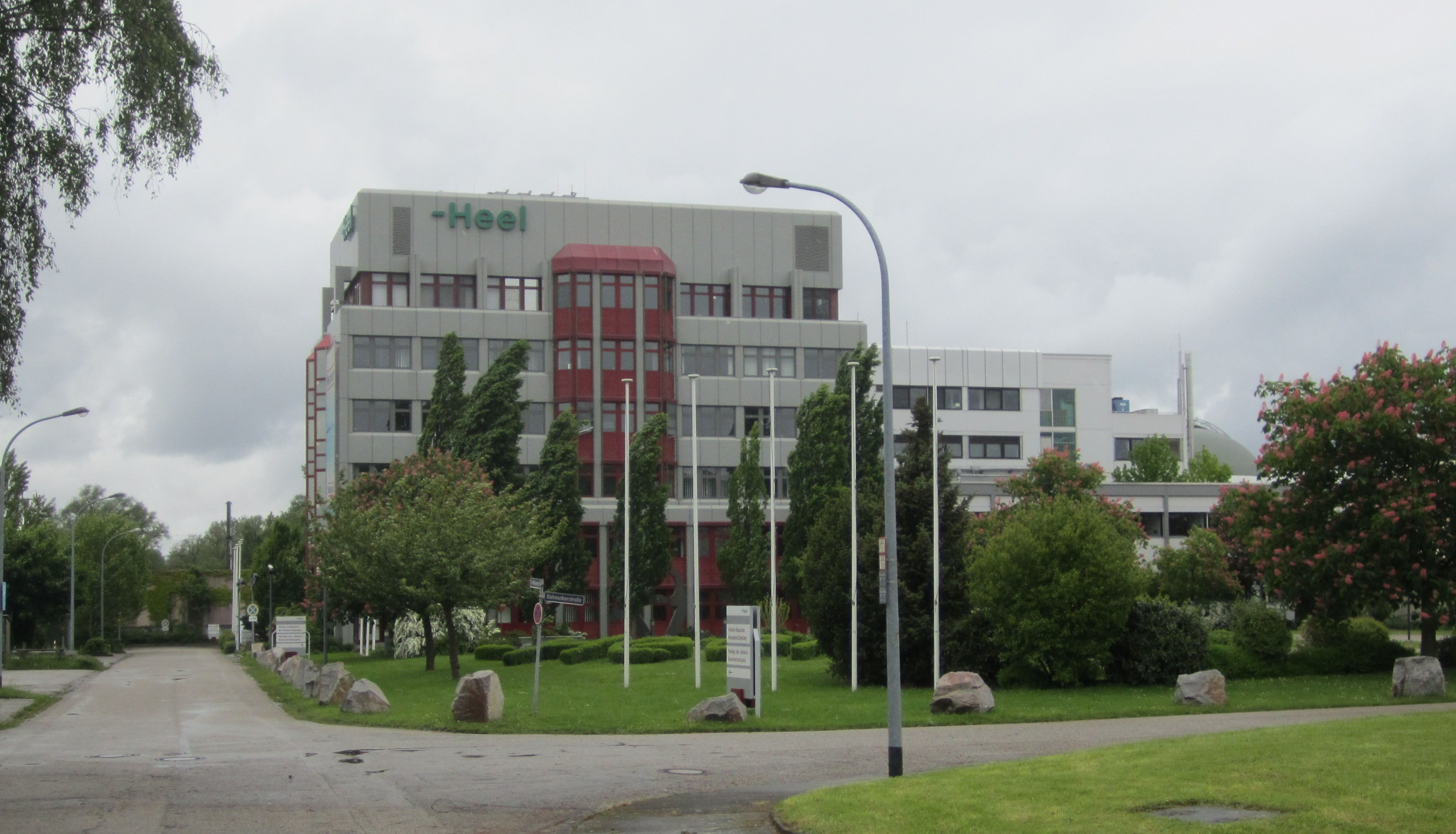 Office building of Biologische Heilmittel Heel in Baden-Baden, Germany.